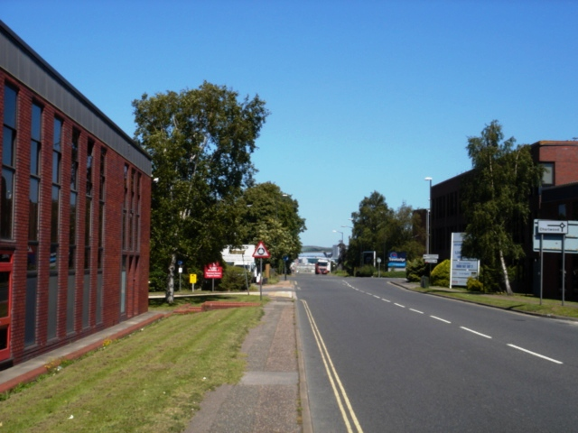 The site of the former village of Lowfield Heath; originally in Surrey, but now part of the Borough of Crawley in West Sussex, England. Looking north along the former London to Brighton Road, now renamed "Old Brighton Road South" following the main road's diversion. The road is abruptly truncated in the distance (behind the lorry), at which point a gate leads directly on to London Gatwick Airport's runway. The former village street runs east (right) from the Travelodge hotel sign.